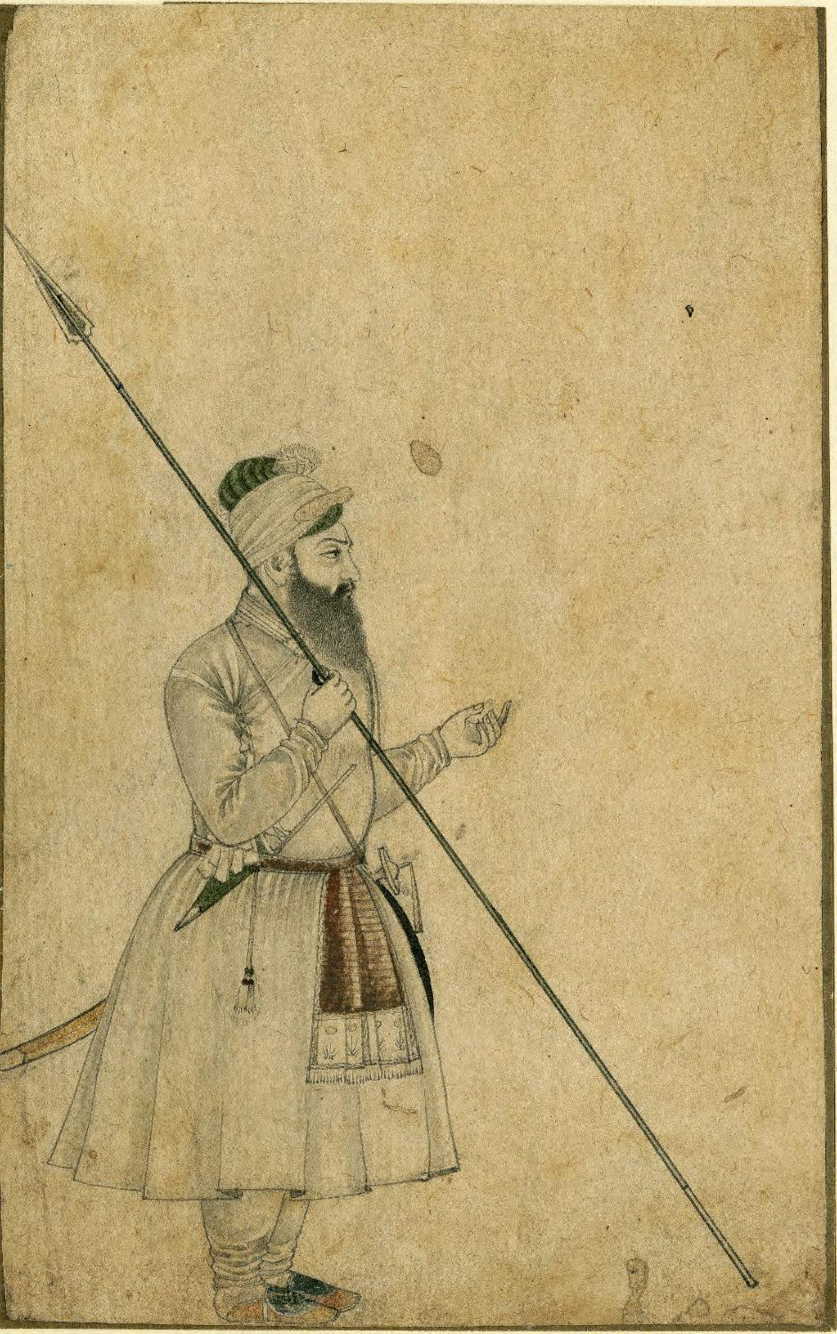 Publication/Creation: c. 1710 Description: Physical Description: 1 watercolor; 14.4 x 22.9 cm. Abstract: Original ink and watercolor wash drawing; standing figure in milit. costume with long spear. Call Number: IndMPO1650sf-1 (ASK Brown Call No.) General notes: Upright 4to, mounted on paper, matted; no margins; stained. Title supplied by cataloger Other notes: London, Maggs, '62. EGp. Provenance: London, Maggs, '62. EGp.